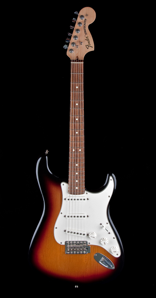 Fender Highway 1 Stratocaster, 2007+ Version. Sunburst finish with Rosewood fretboard.